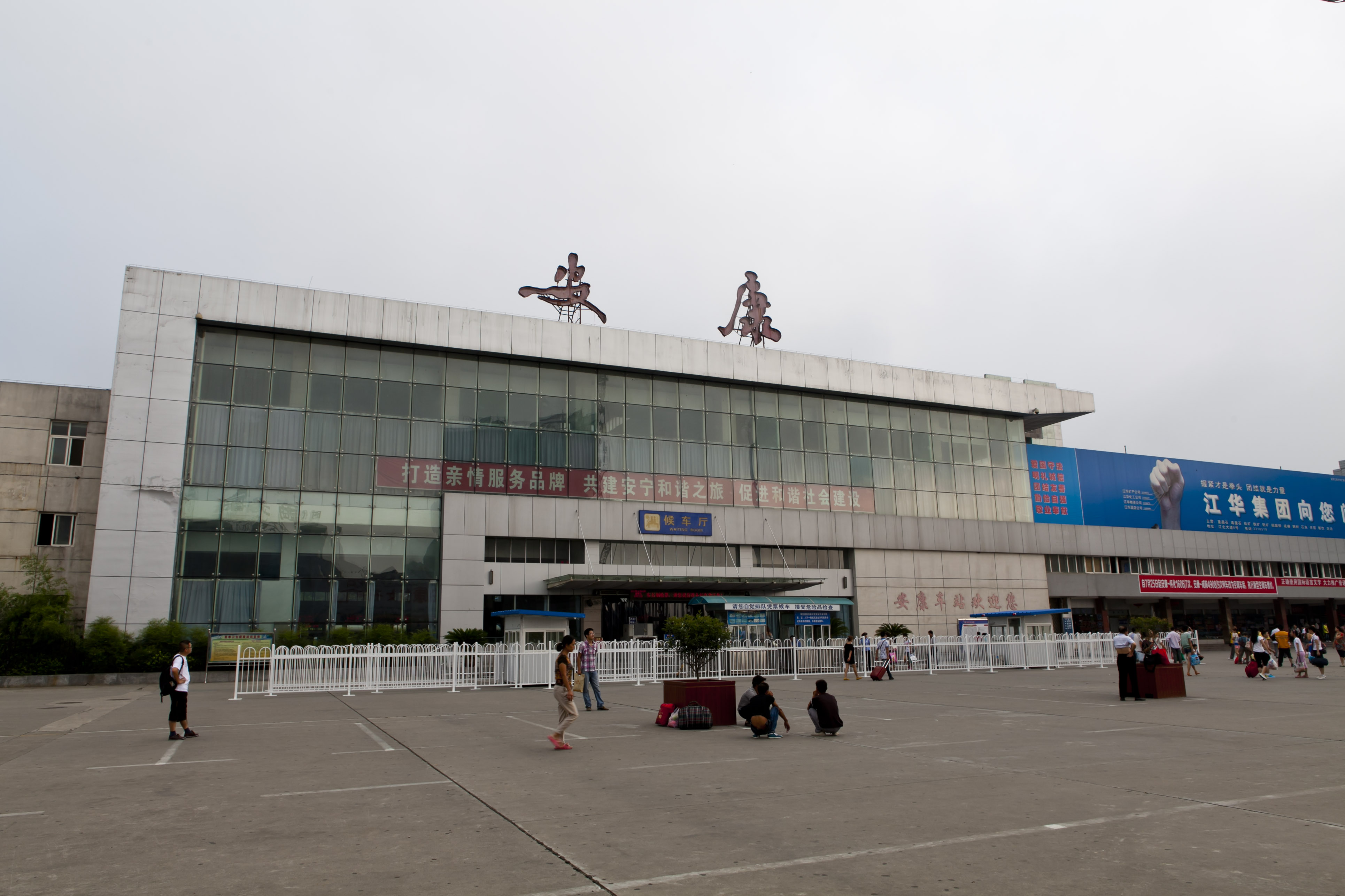 Ankang Station Outside